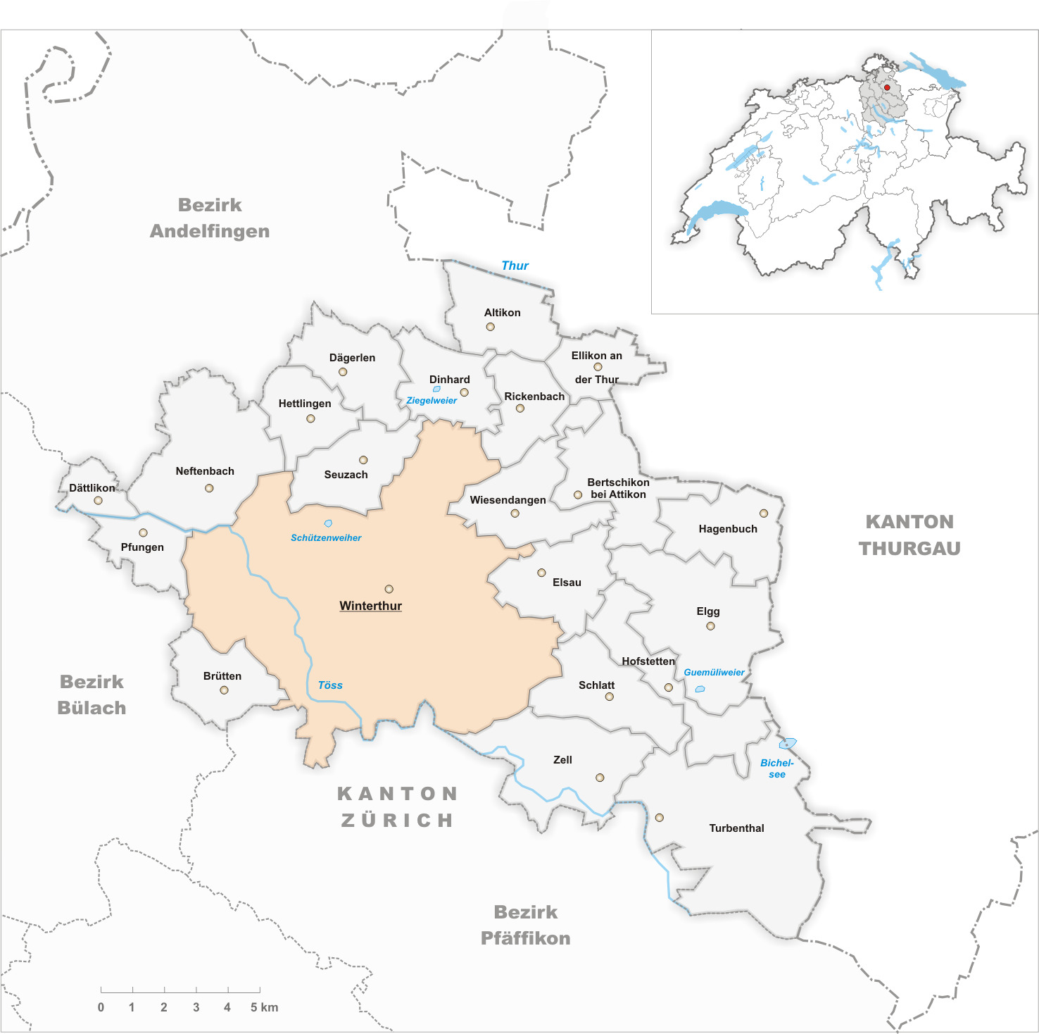 Municipality Winterthur